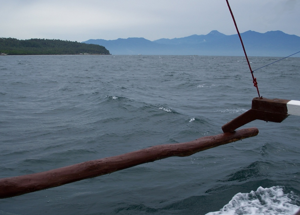 View across the gulf of Davao. On the left side Talikud island, in the background the mountains of Mindanao mainland, south of Davao City.